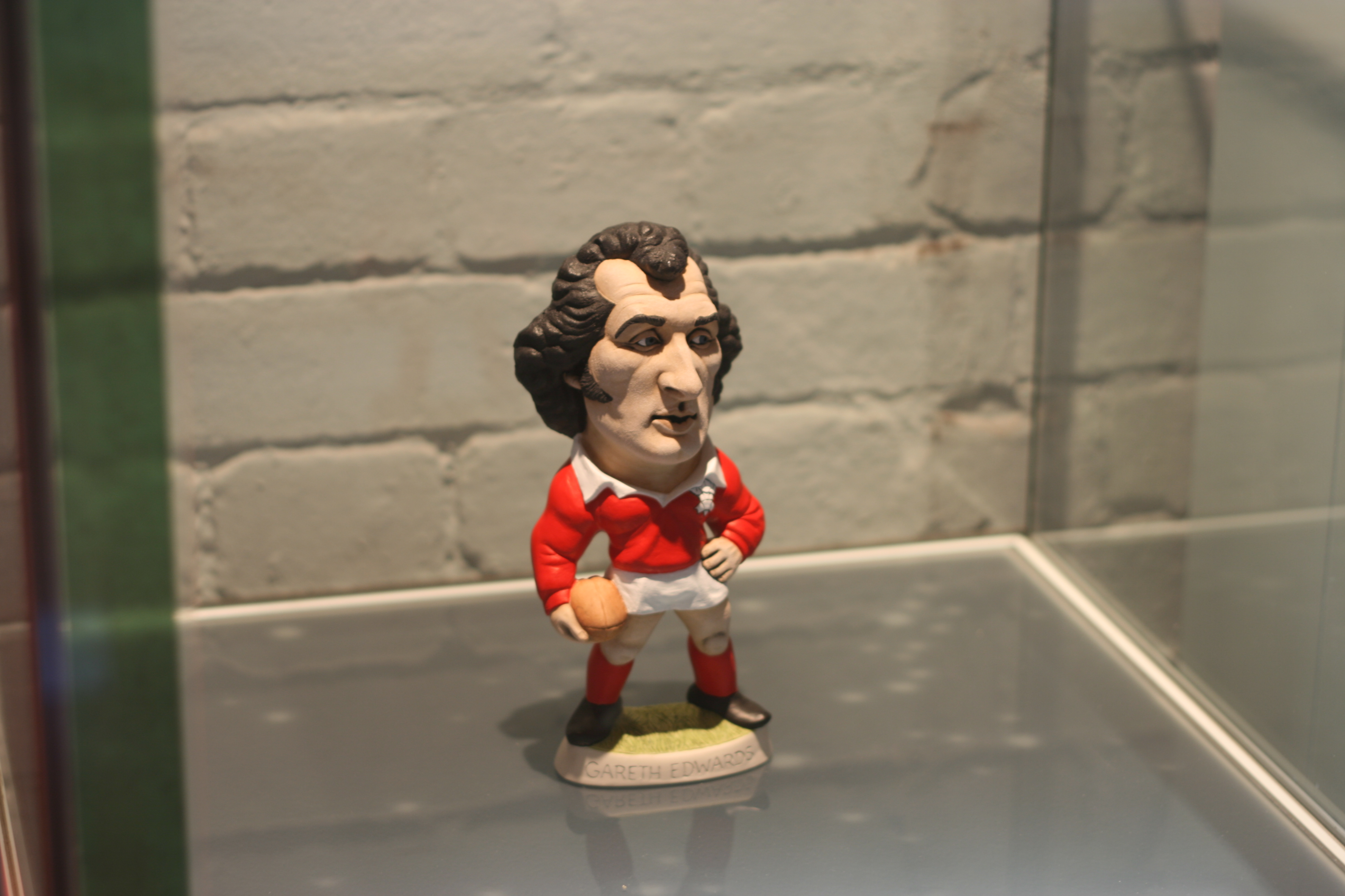 A Gareth Edwards Grog, Welsh rugby player. They had this in the National Waterfront museum.